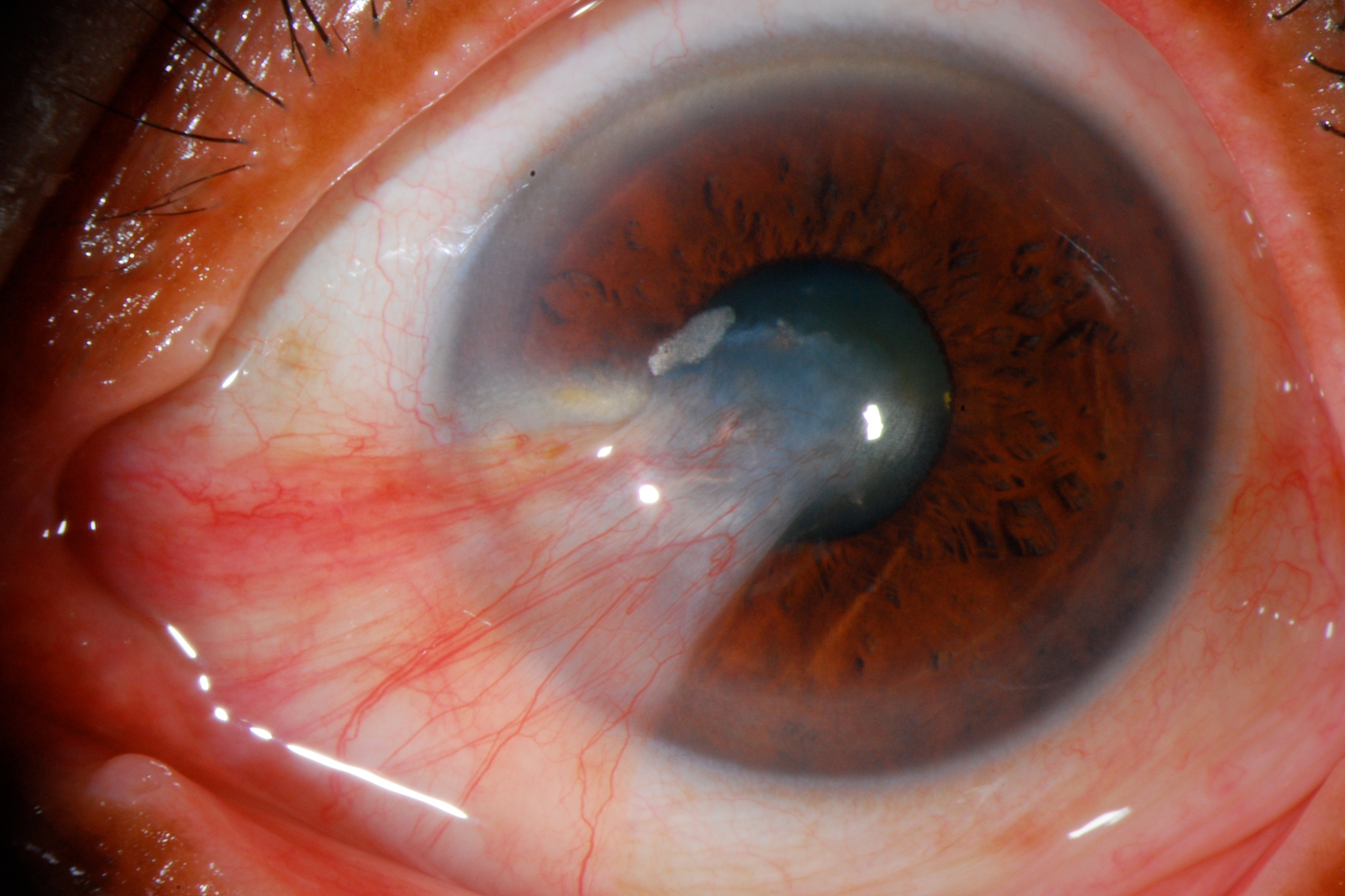 Severe Pterygium reaching the pupil